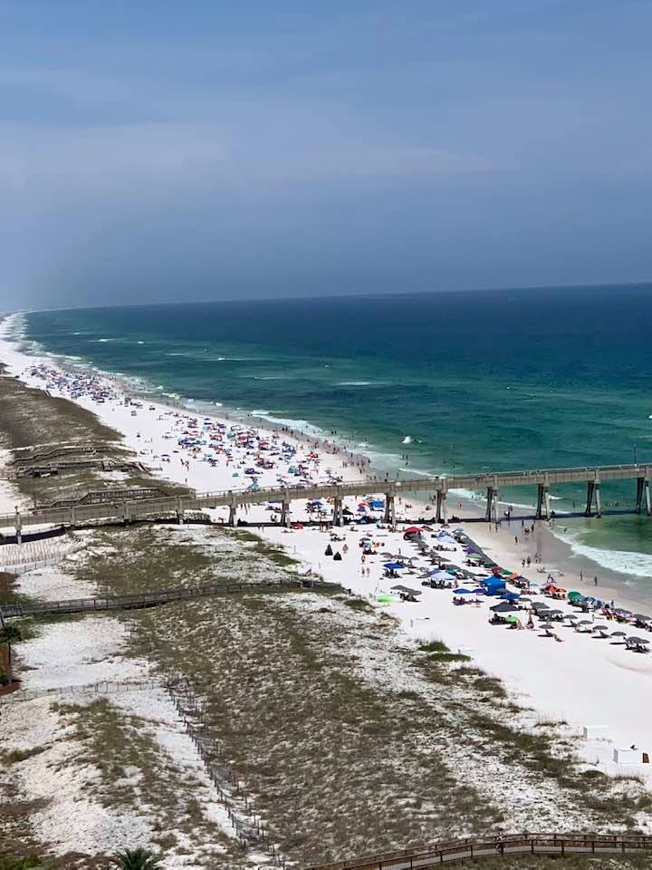 A photo by me of Navarre Beach during the Spring of 2020